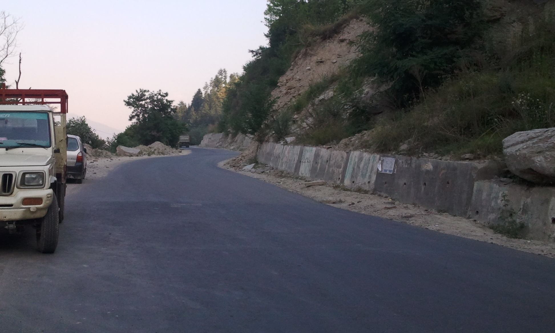 View of State Highway 10 also known as Theog-Hatkoti road, near Hatkoti.